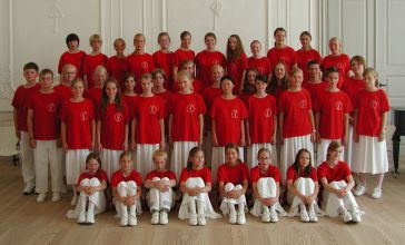 Children choir of The Royal Danish Academy of Music, performing at Valdemars Slot